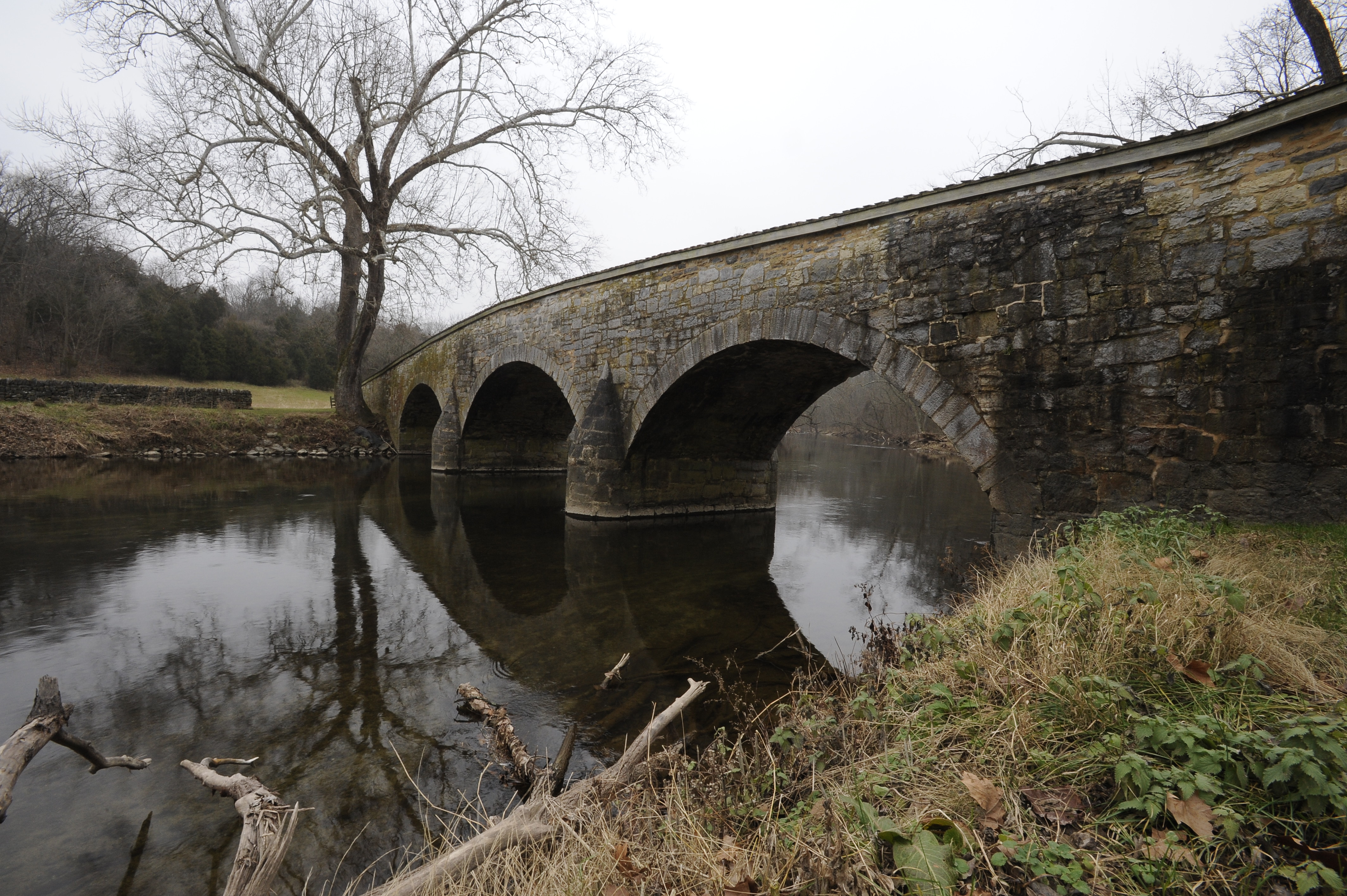 Burside Bridge Antietam Creek west bank looking east